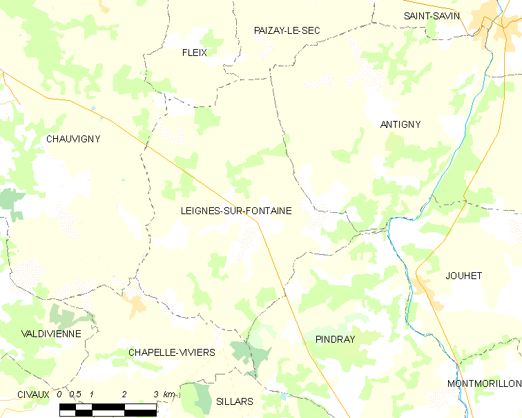 Map of French municipality Leignes-sur-Fontaine